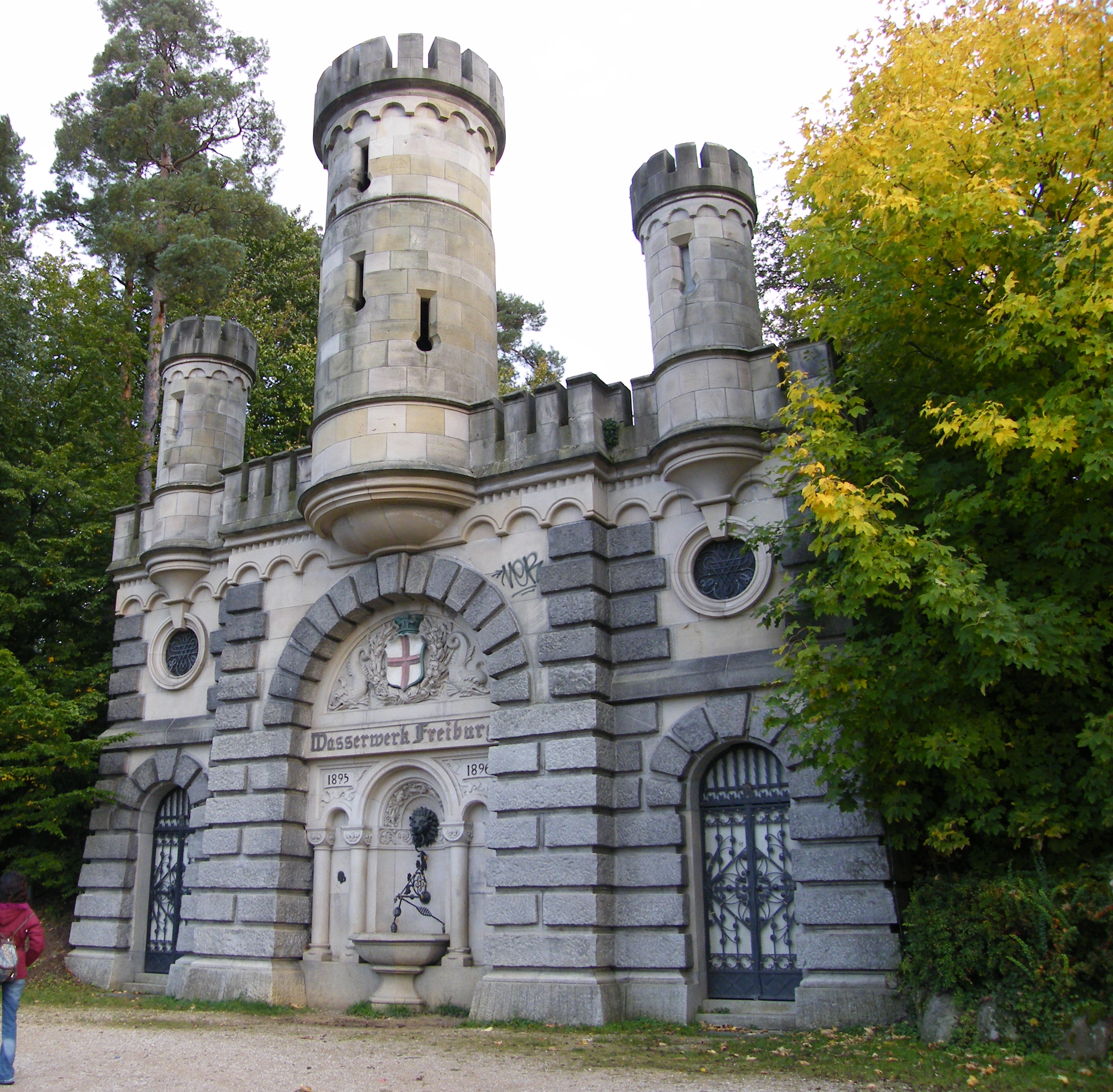 water castle in Freiburg in Breisgau